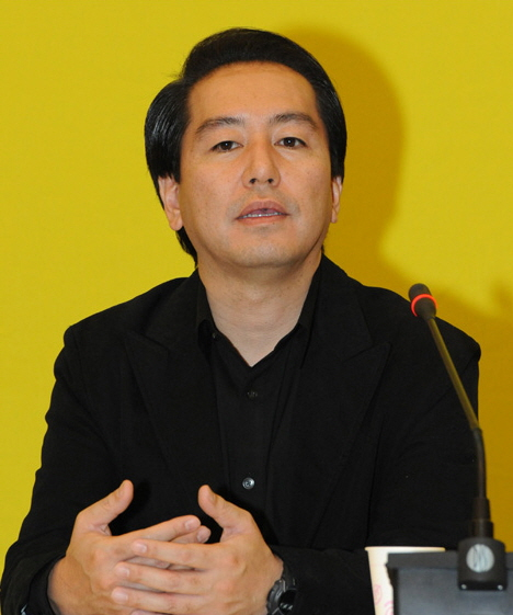 Fumihiko Sori at ICON 2009